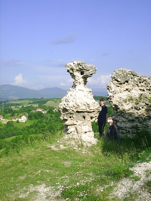 Ruins of the Prusac Castle, BiH